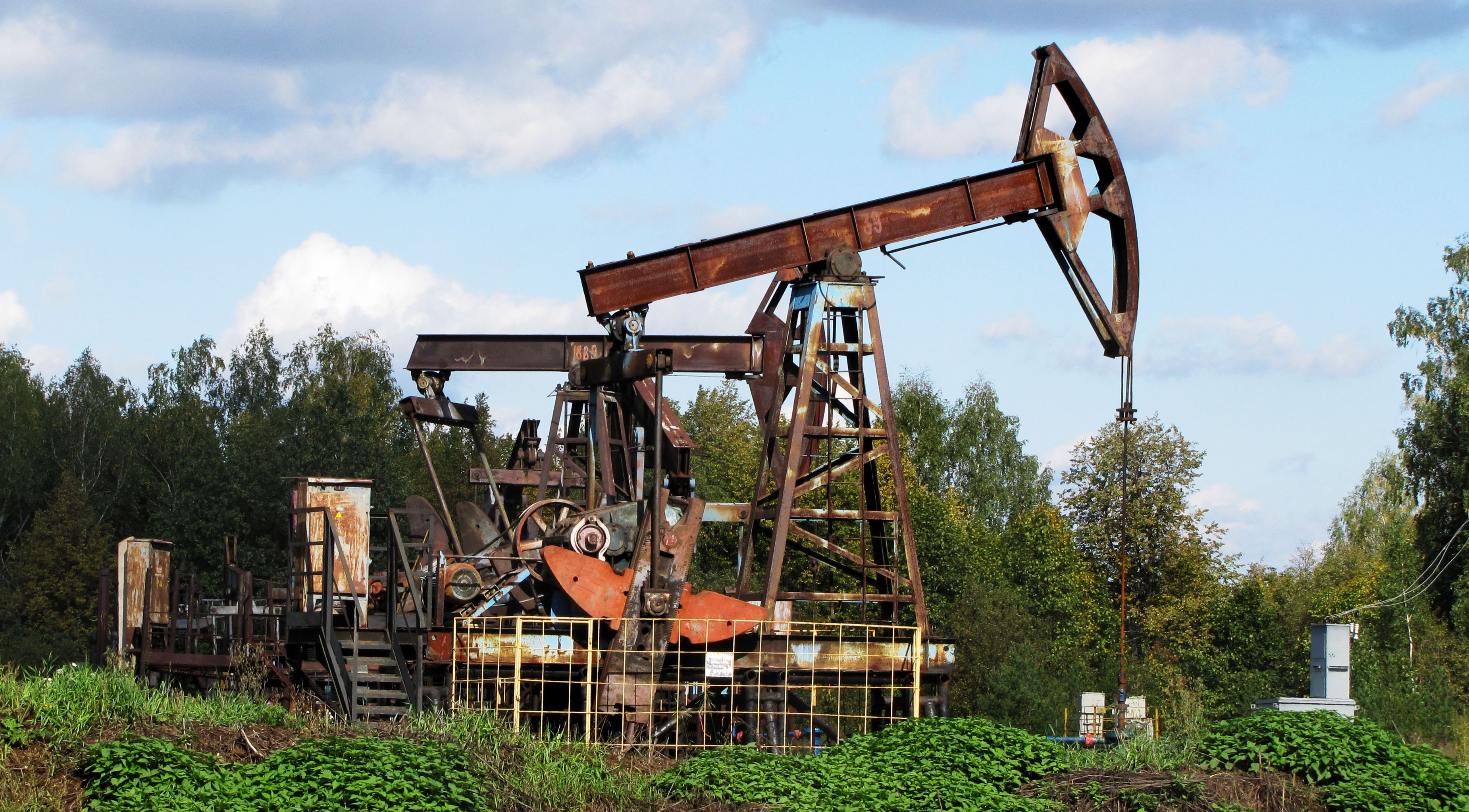 Belebey oil